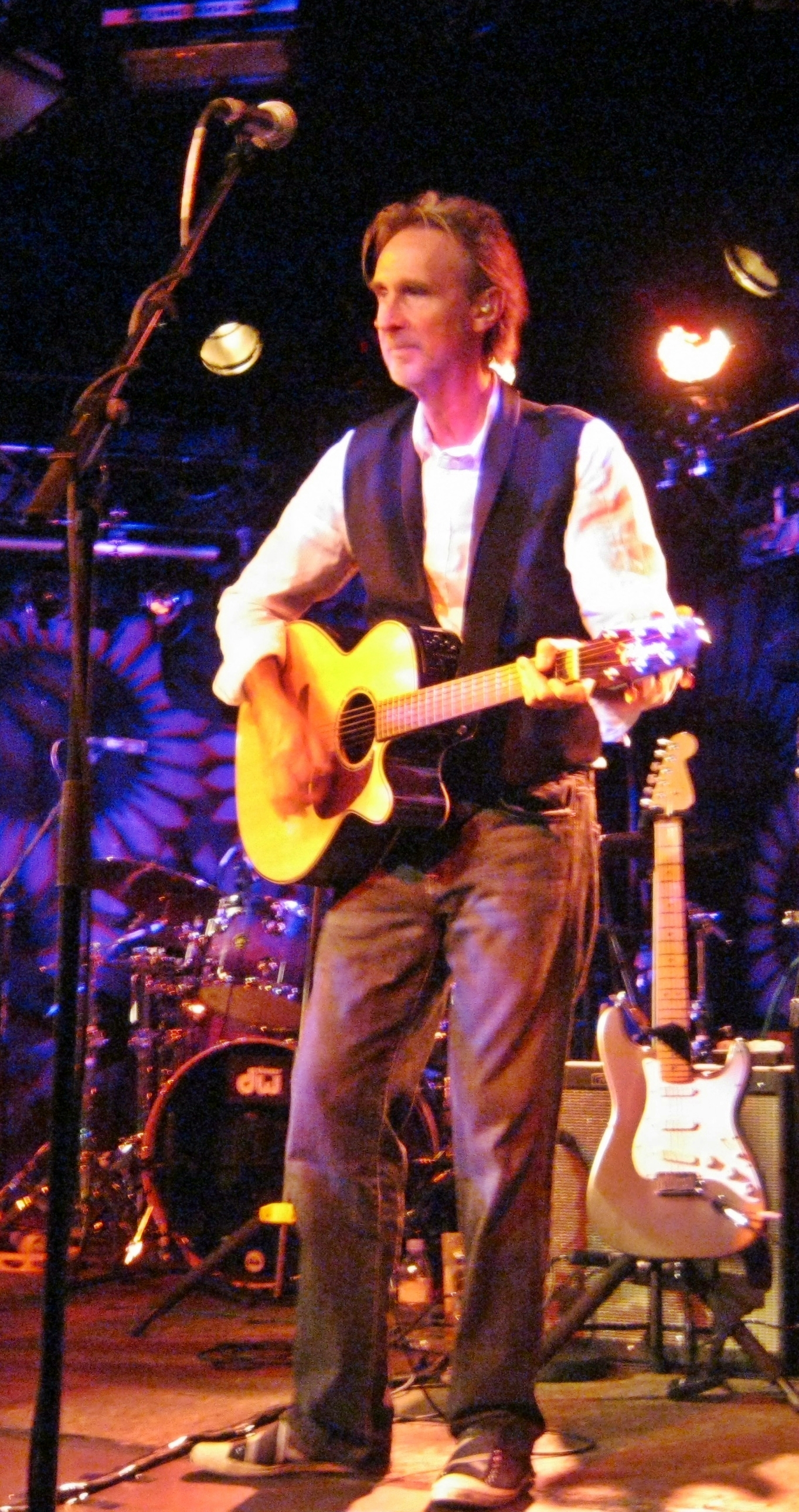 Mike Rutherford